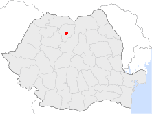 Location of Bistrița in Romania.